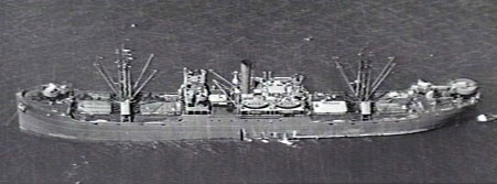 USAT Will H. Point, 21 August 1943. The ship was the former SS West Corum which served in the United States Navy after World War I as USS West Corum (ID-3982). Description from source Aerial port side view of the American fleet auxiliary Will H. Point (ex West Corum). Note the 3 inch AA gun in the bows and the 20 mm Oerlikon AA guns in the bridge wings and on the after end of the superstructure. It is not possible to distinguish the type of gun mounted aft. (Naval historical collection)